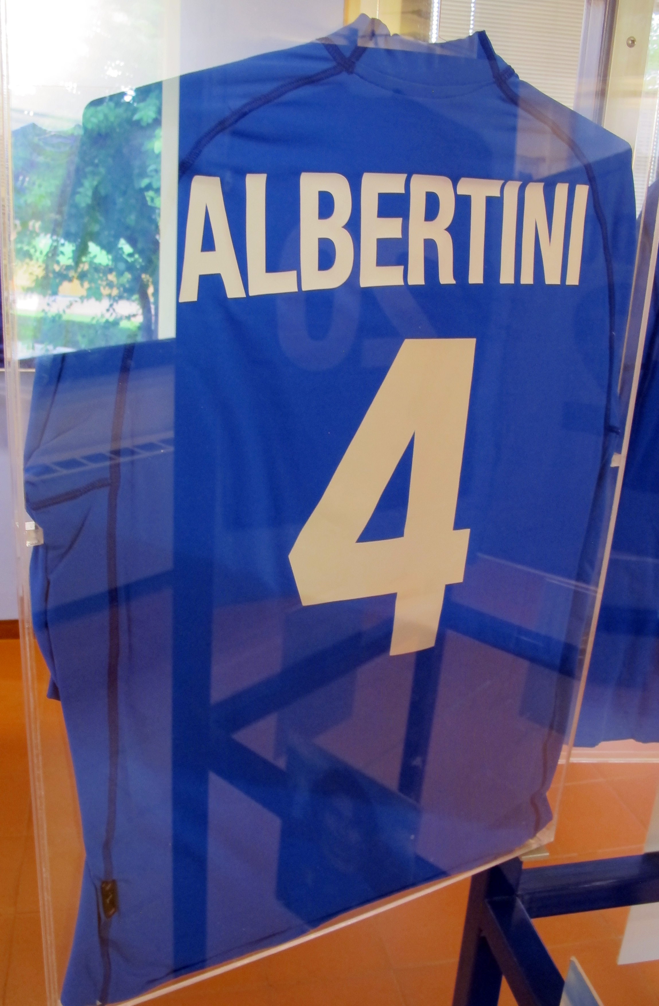 Collections of the Museo del Calcio (Florence)